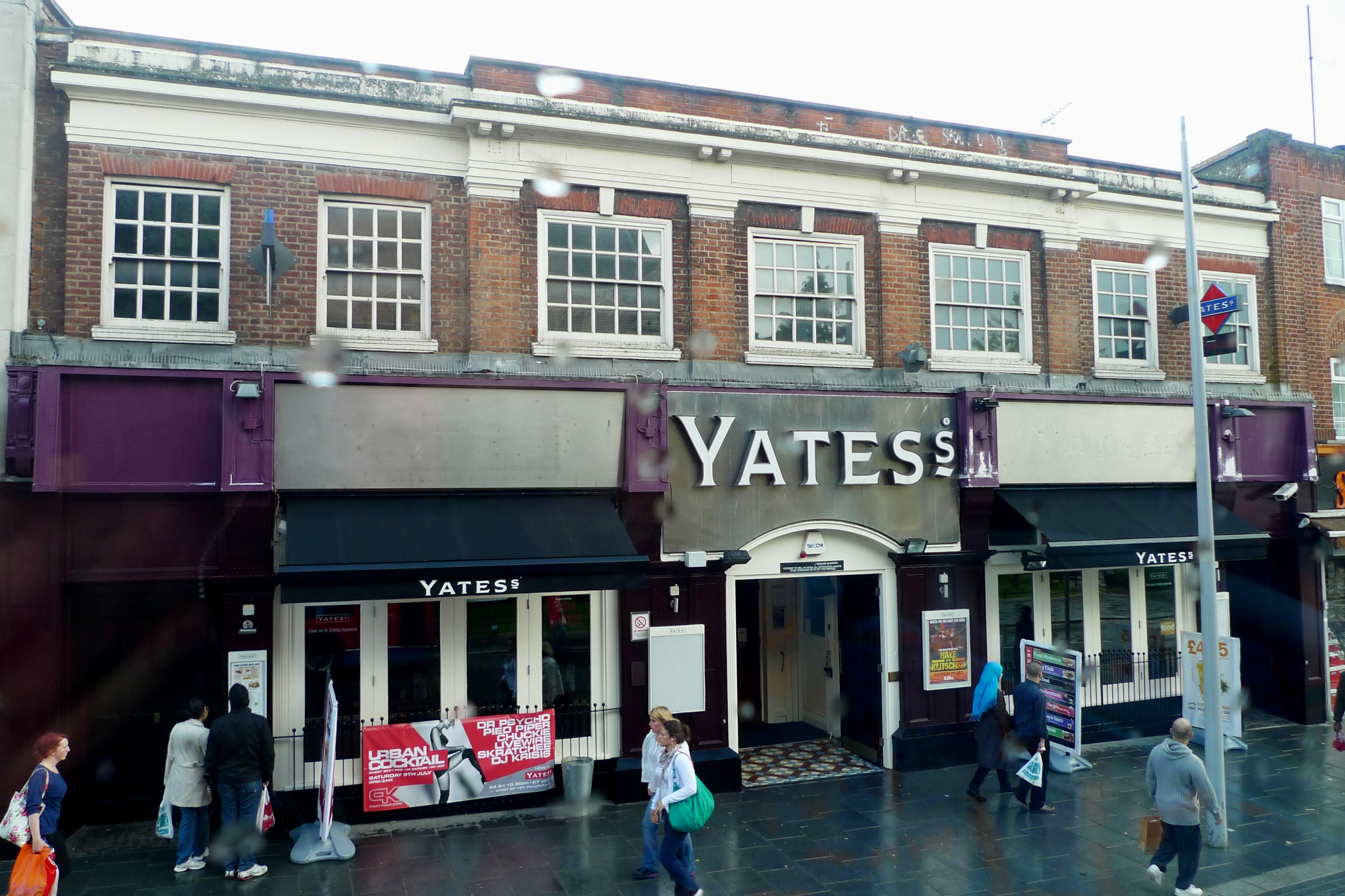 A chain pub in central Harrow photographed from a bus. Address: 269-271 Station Road. Owner: Stonegate Pub Company [Town and City] (website and Stonegate website); Laurel Pub Co (former); Yates Group (former). Links: Fancyapint Pubs Galore Beer in the Evening Qype